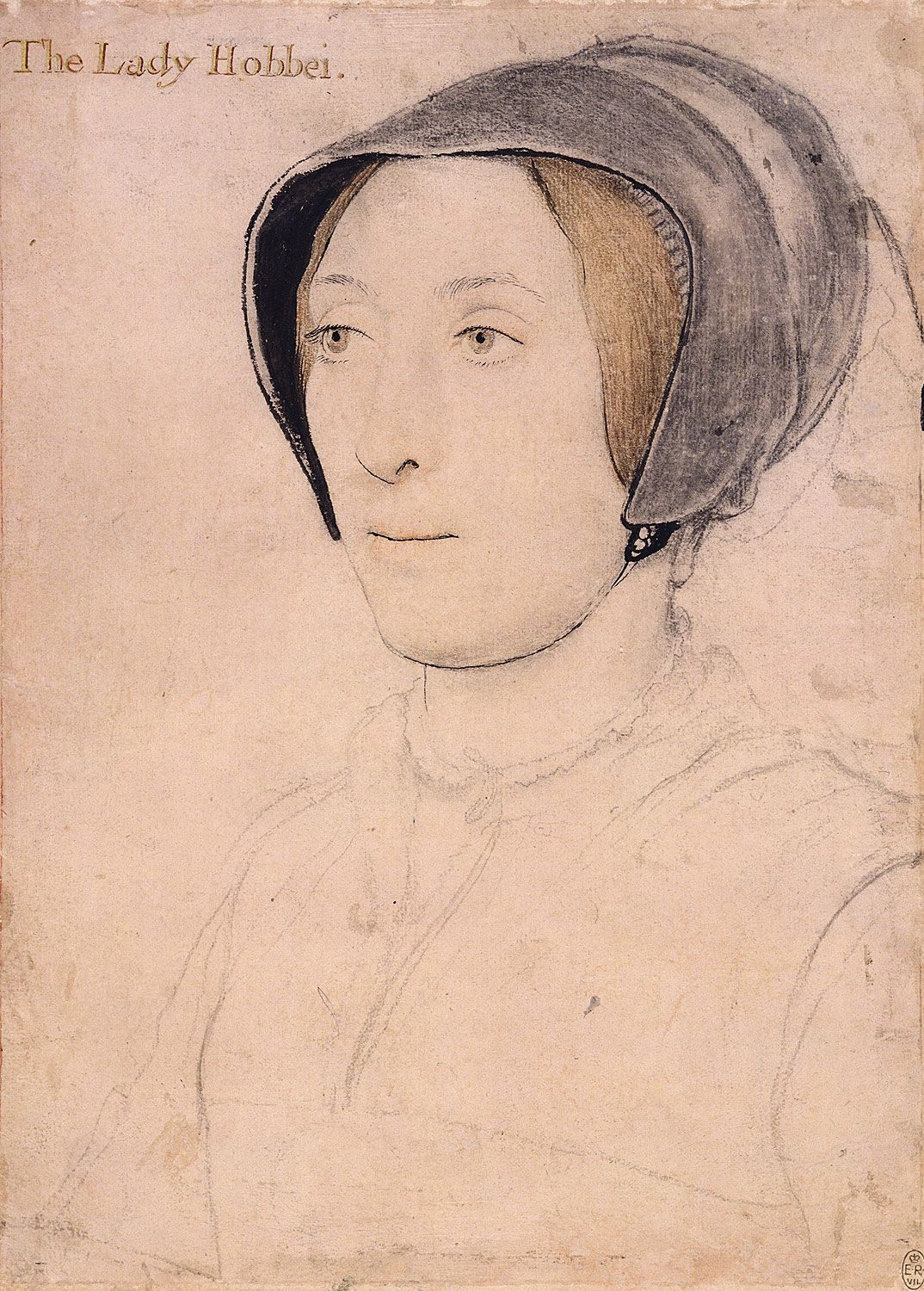 Portrait of Lady Hoby, inscribed "The Lady Hobbei". Black and coloured chalks, pen and Indian ink on pink-primed paper, 27.8 × 20.3 cm, Royal Collection, Windsor Castle. The drawing has been so rubbed and reinforced by later hands that it is disfigured, obliterating Holbein's original work. If the inscription—added later and not necessarily reliable—is correct, the sitter is most likely Elizabeth Hoby, wife of the diplomat Sir Philip Hoby (1505–1558), whose portrait Holbein also drew. Reference K. T. Parker, The Drawings of Hans Holbein at Windsor Castle, Oxford: Phaidon, 1945, OCLC 822974, p. 50.